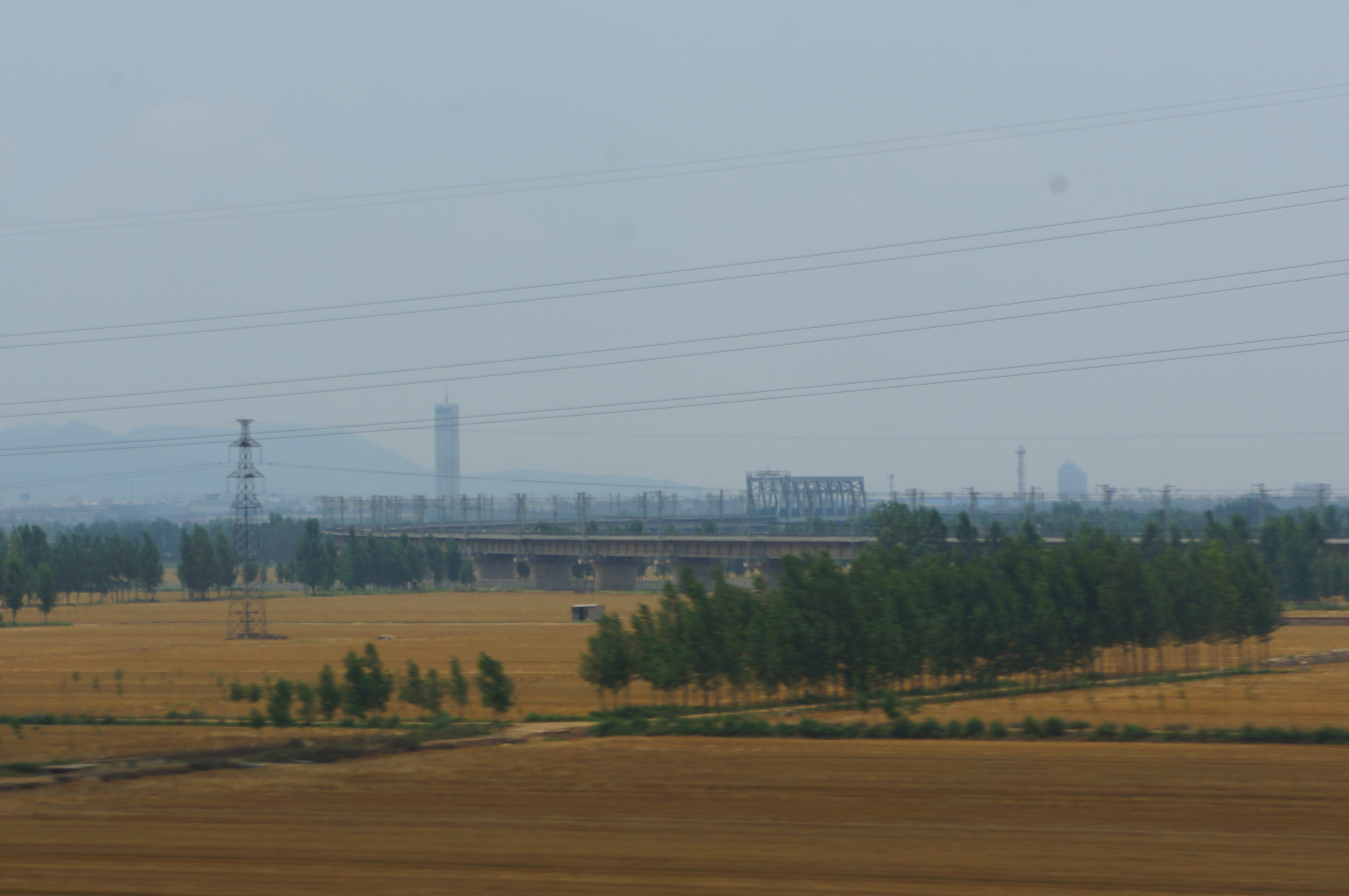 201606 Wari Railway in Shandong